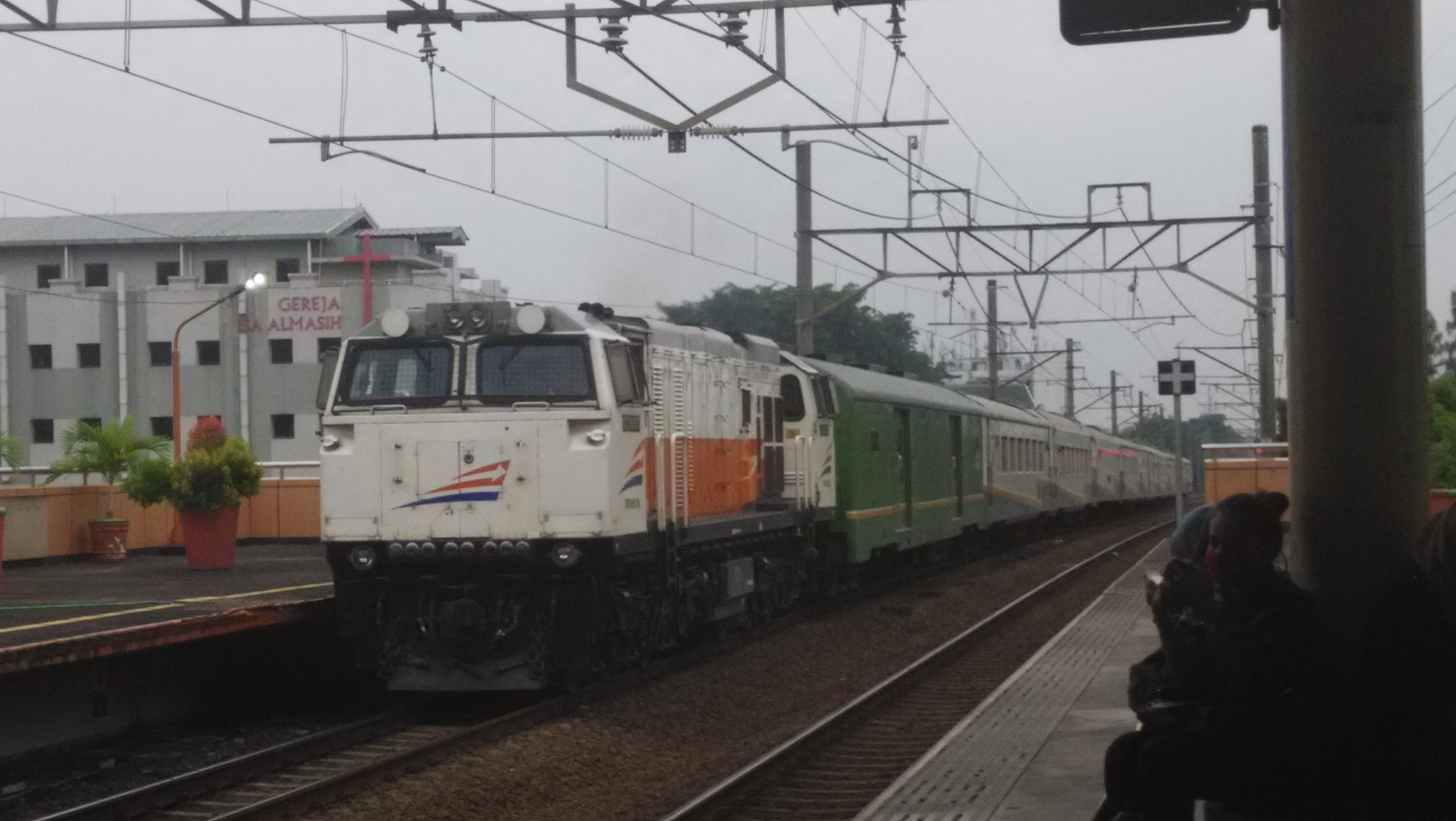 Argo Bromo Anggrek train about to pass Cikini StationBahasa Indonesia: Kereta api Argo Bromo Anggrek akan melintasi Stasiun CIkini